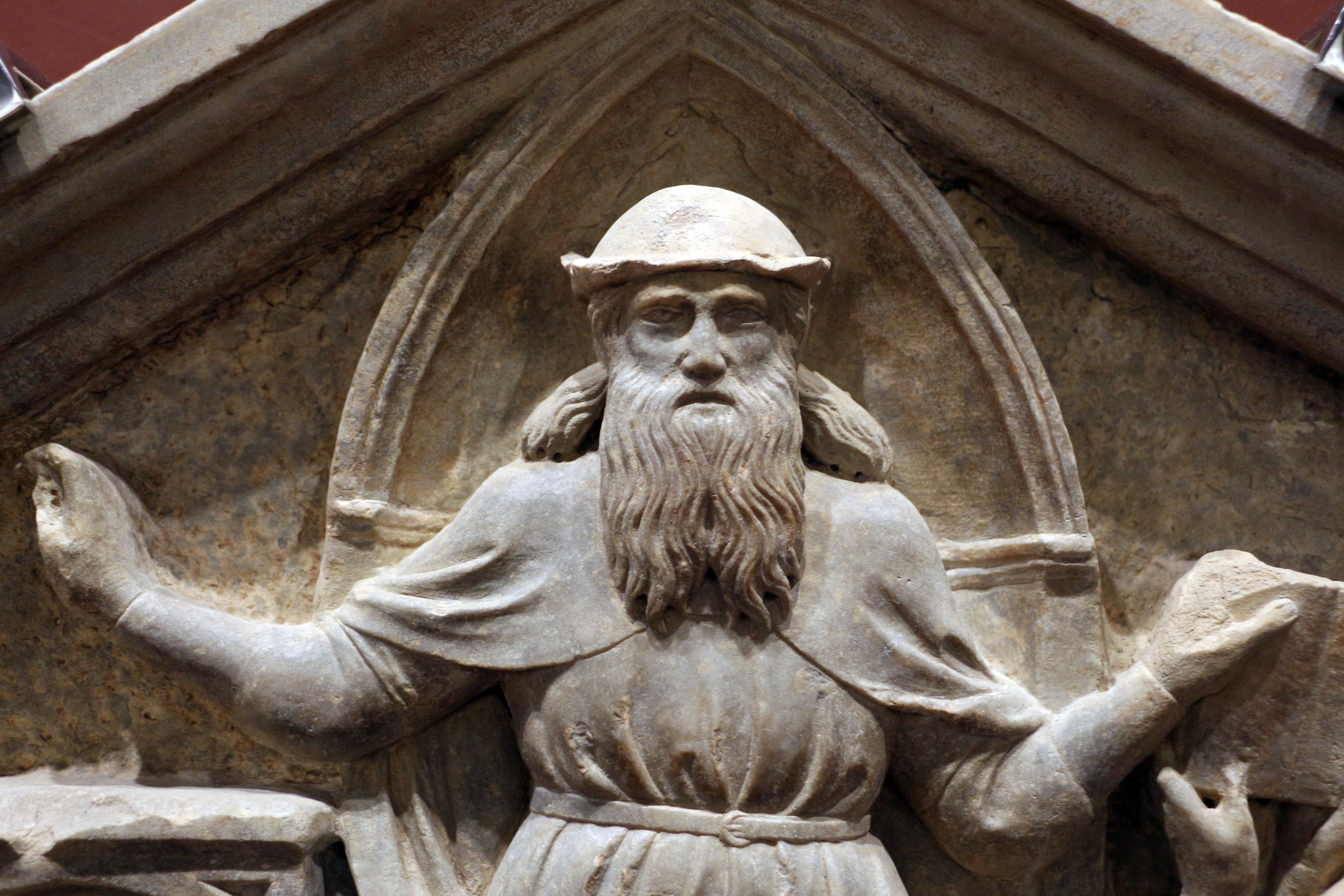 Reliefs of the Giotto's Belltower